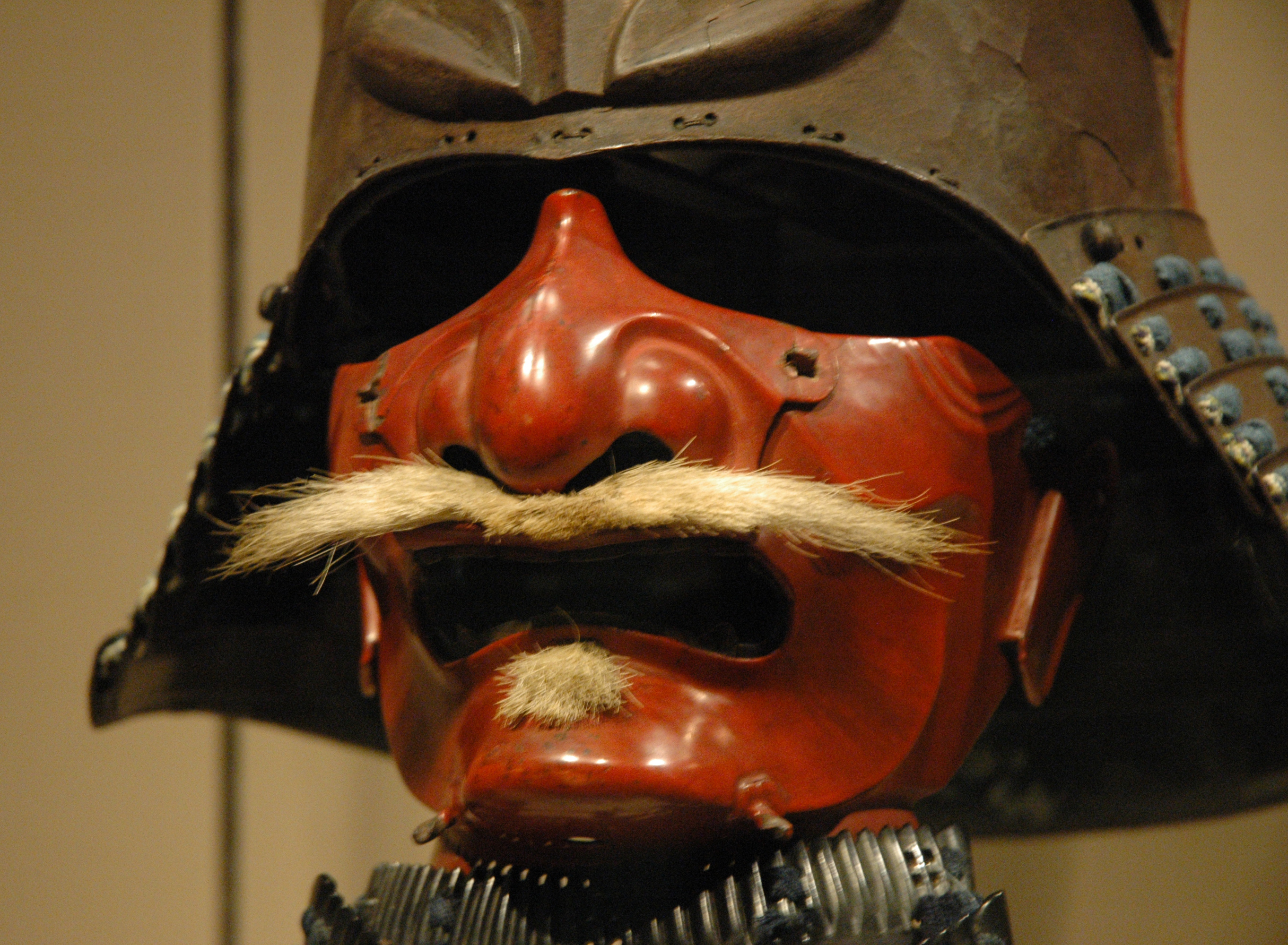 Antique Japanese (samurai) menpo, Asian Art Museum of San Francisco.